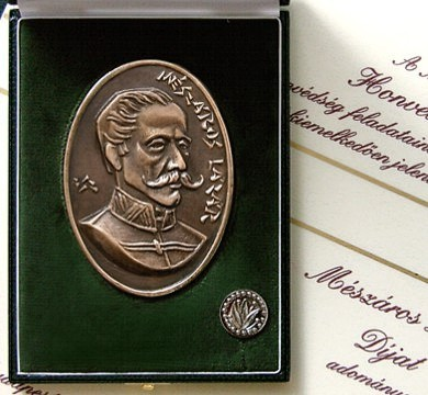 Lázár Mészáros prize